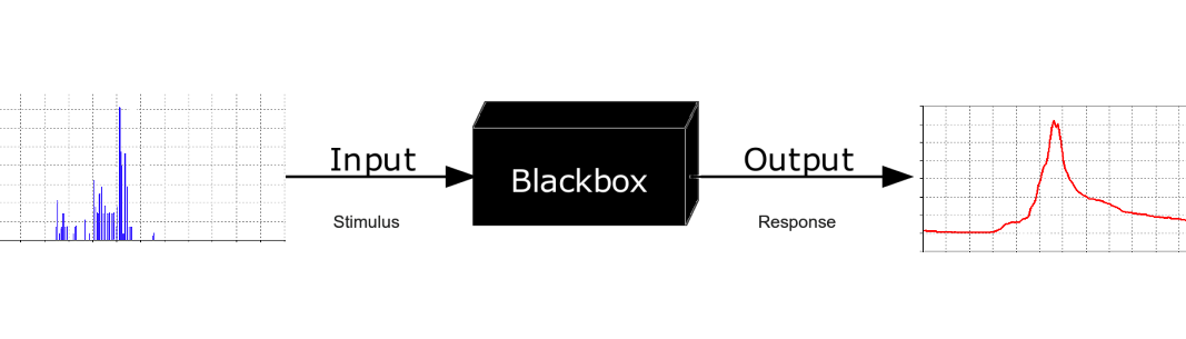 same as File Blackbox3D, adding I/O graphs